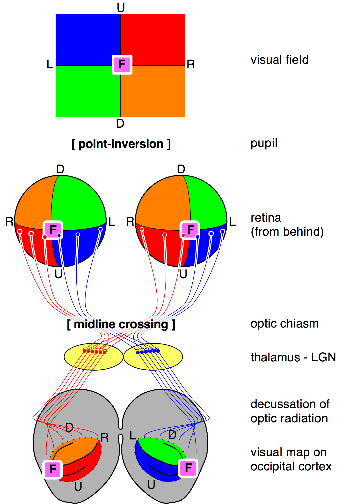 Transformations of the visual field toward the visual map on the primary visual cortex. A point-inversion (mirroring) occurs in the pupil, so that U,D as well as L,R are reversed. A (partial) midline crossing takes place in the optic chiasm, and a final mirroring takes place by the decussation of the optic radiation. The final "image" is upside-down, and the left and right hemifields are on the contralateral hemisphere. U=up; D=down; L=left; R=right; F=fovea